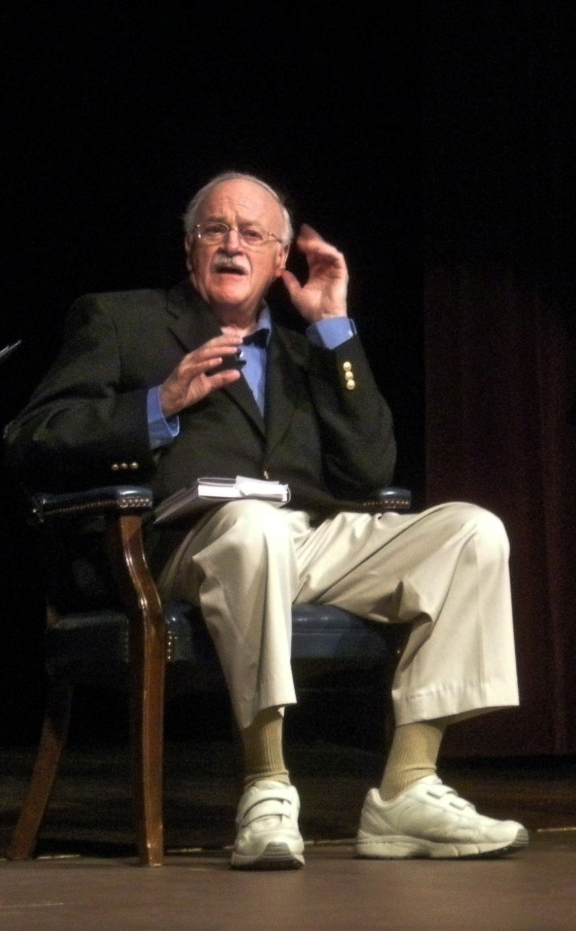 Wayne Greenhaw (center) at Snead State Community College, 2011